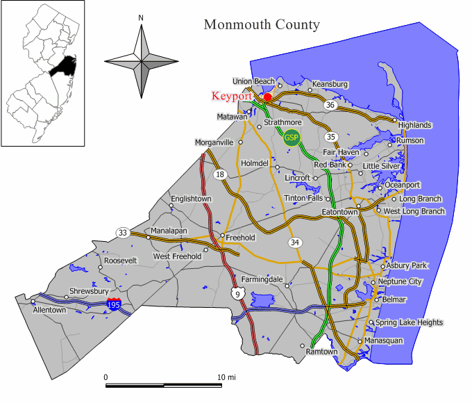 Source: Jim Irwin